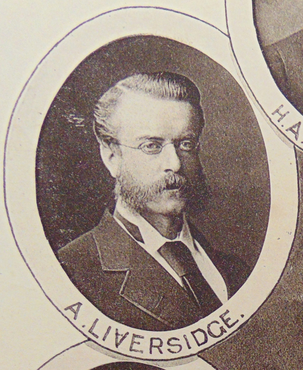 Detail of frontispiece from: Observations of the Transit of Venus 9 December 1874; Made at Stations in New South Wales, Illustrated with photographs and Drawings, under the direction of H. C. Russell, B.A., C. M. G., F.R.S., F.R.A.S. &c., Government Astronomer. C. Potter, government printer, 1892